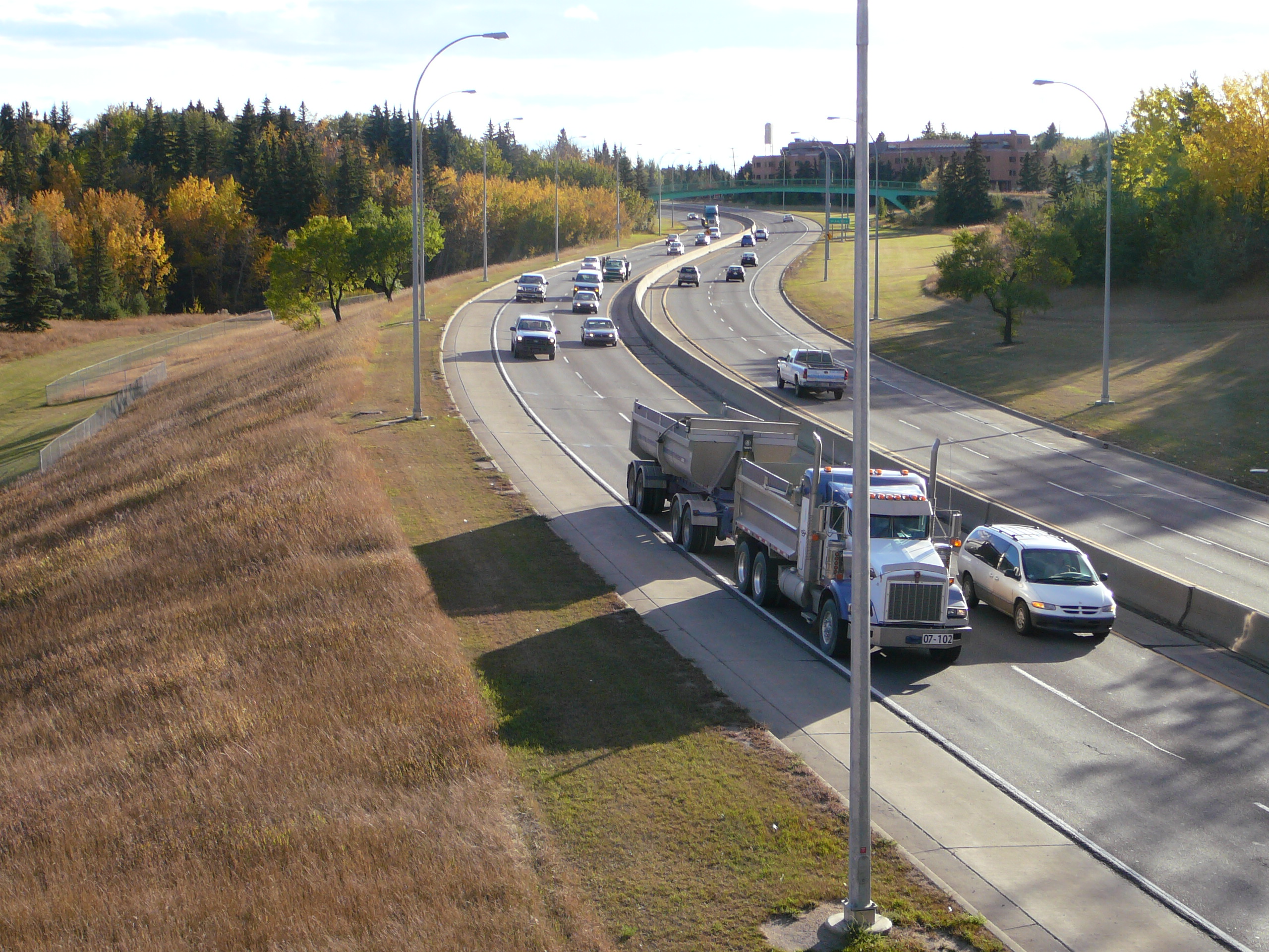 Picture of Wayne Gretzky Drive taken from the 106 Avenue overpass